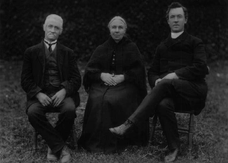 An undated photograph of Fr. Michael O'Flanagan with his parents Edward and Mary, probably taken sometime before he left for the United States in 1921.